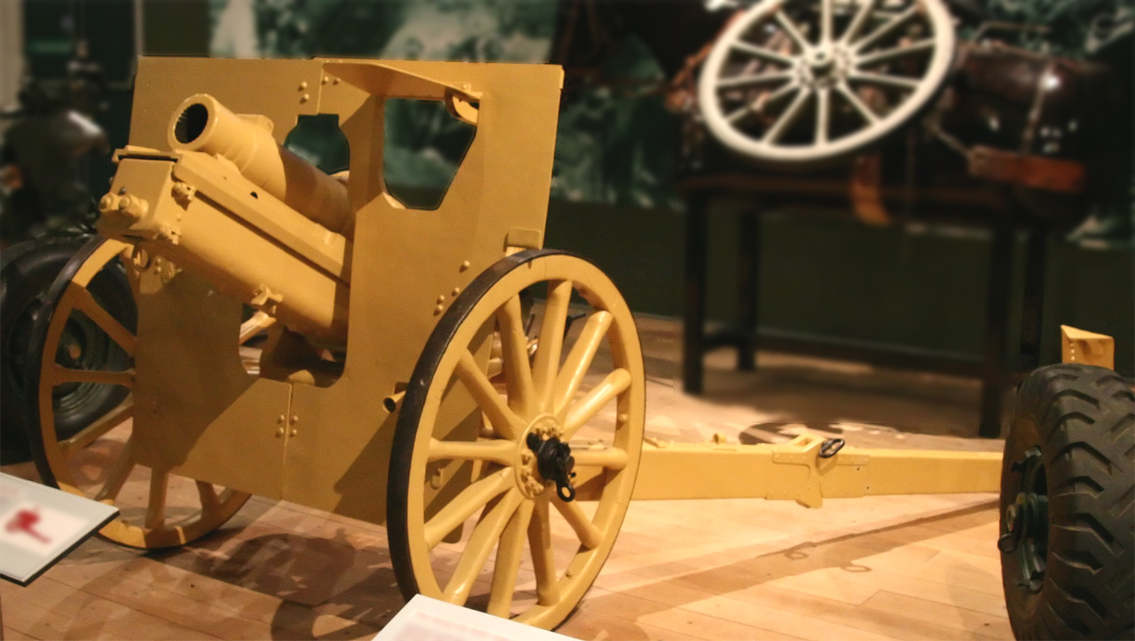 A 3.7 inch Mountain Howitzer at the Firepower museum in London.